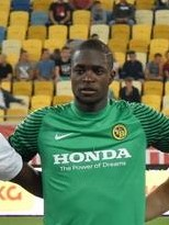 Yvon Mvogo